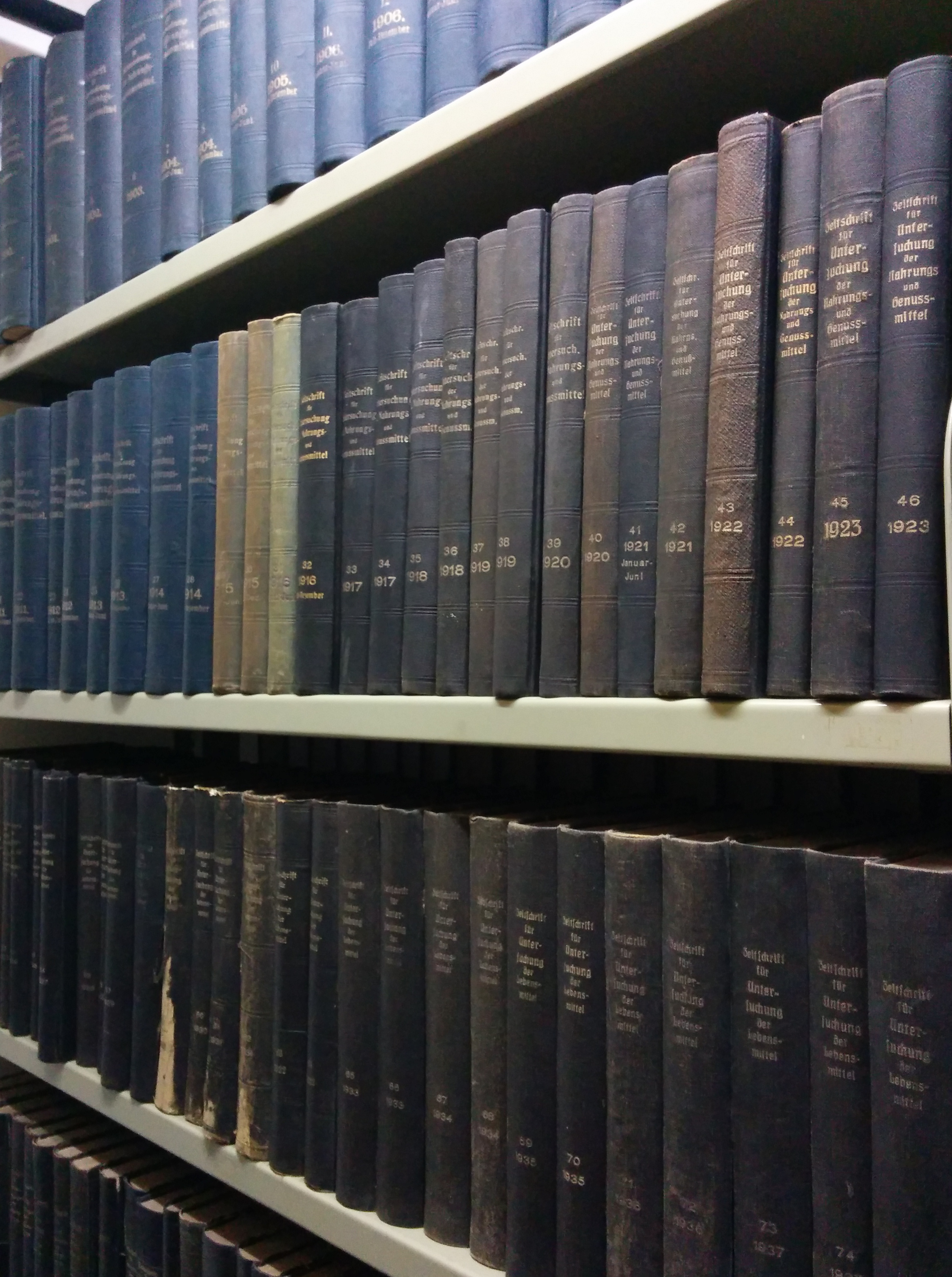 Bound volumes from the German scholarly journal 'Zeitschrift für Untersuchung der Nahrungs- und Genussmittel', later '… der Lebensmittel', from the first half of the twentieth century; the volumes visible range between about 1900 and 1937. The journal is the predecessor of today’s 'European Food Research and Technology' and was then a prominent forum of German food chemists.